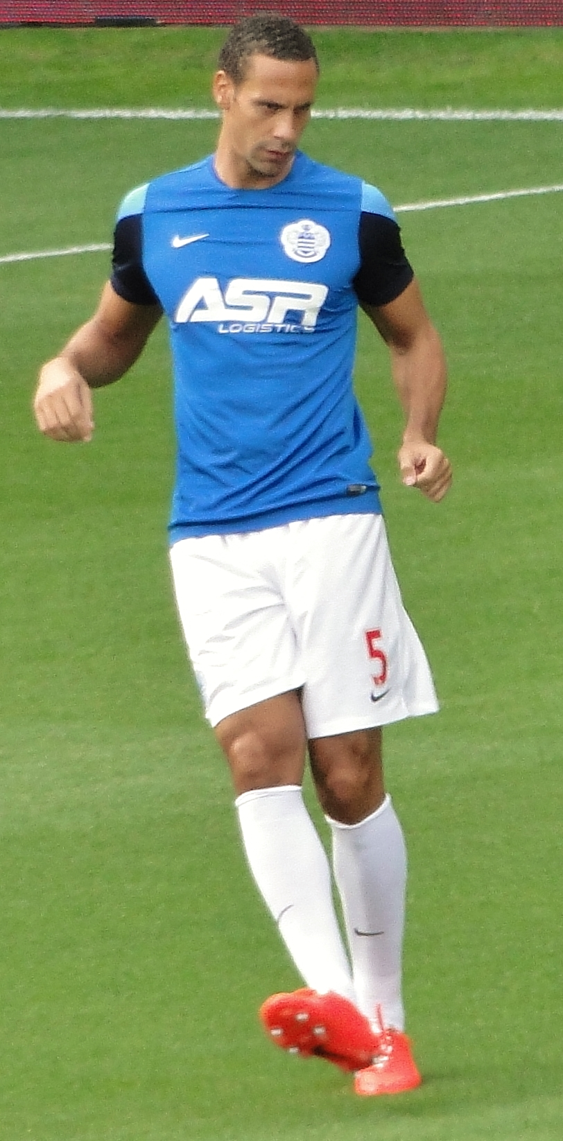 Queens Park Rangers player Rio Ferdinand warming up before their Premier League defeat to West Ham United at the Boleyn Ground, London in October 2014